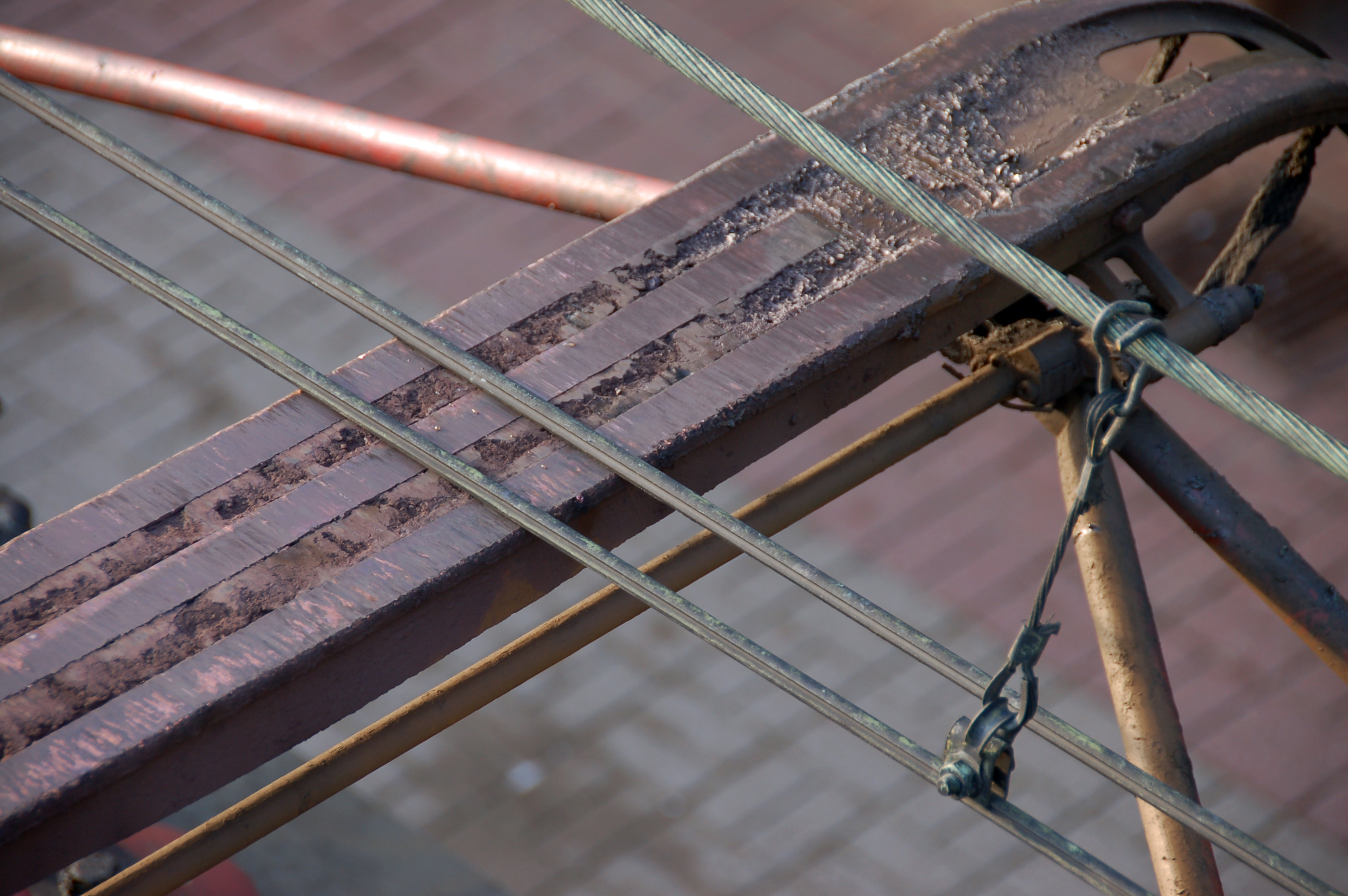 Stettin central train station